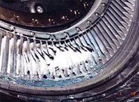 Engine turbine damage from TACA flight 110. Date is approximate.